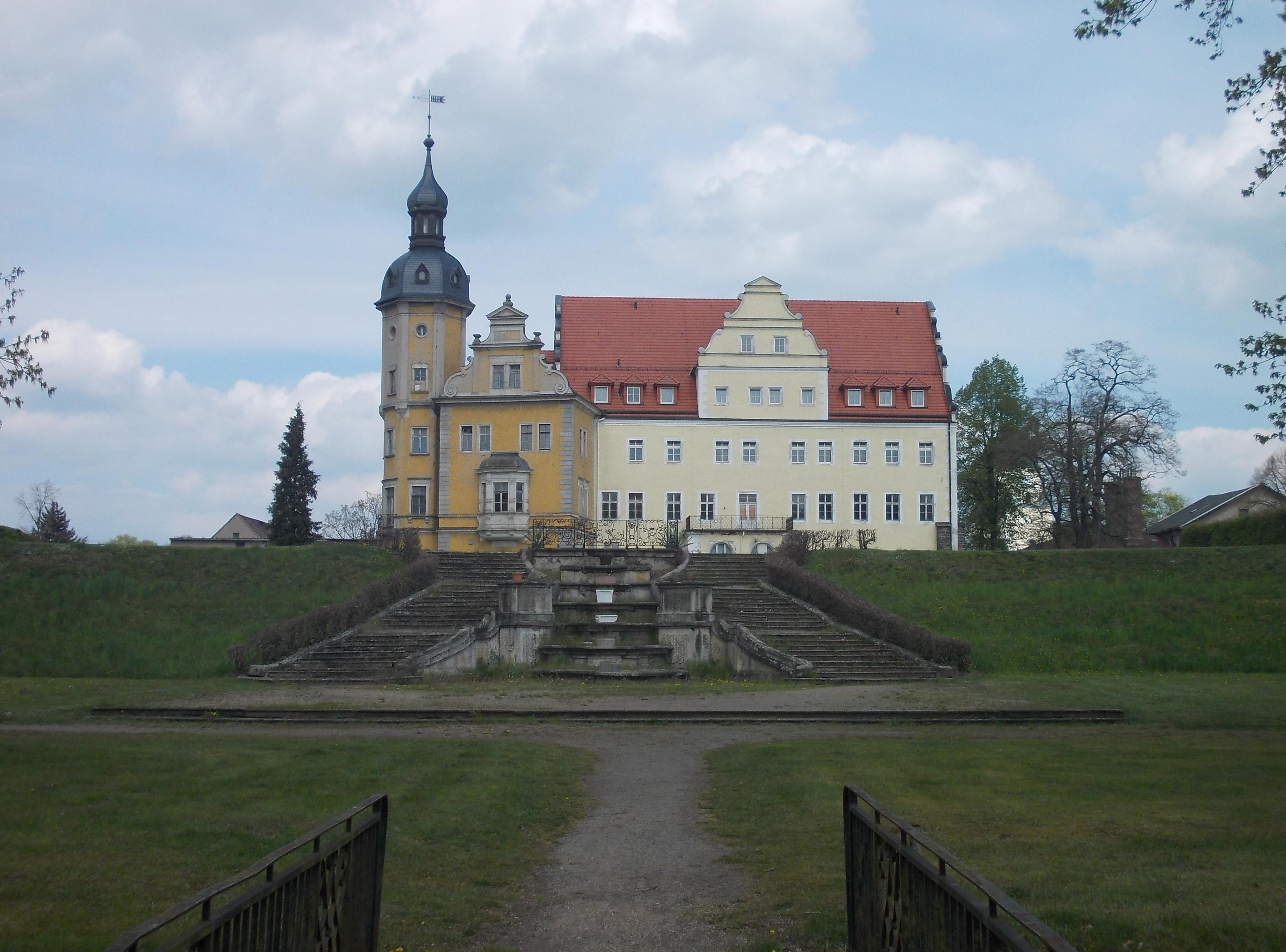 Thallwitz Castle (Leipzig district, Saxony)